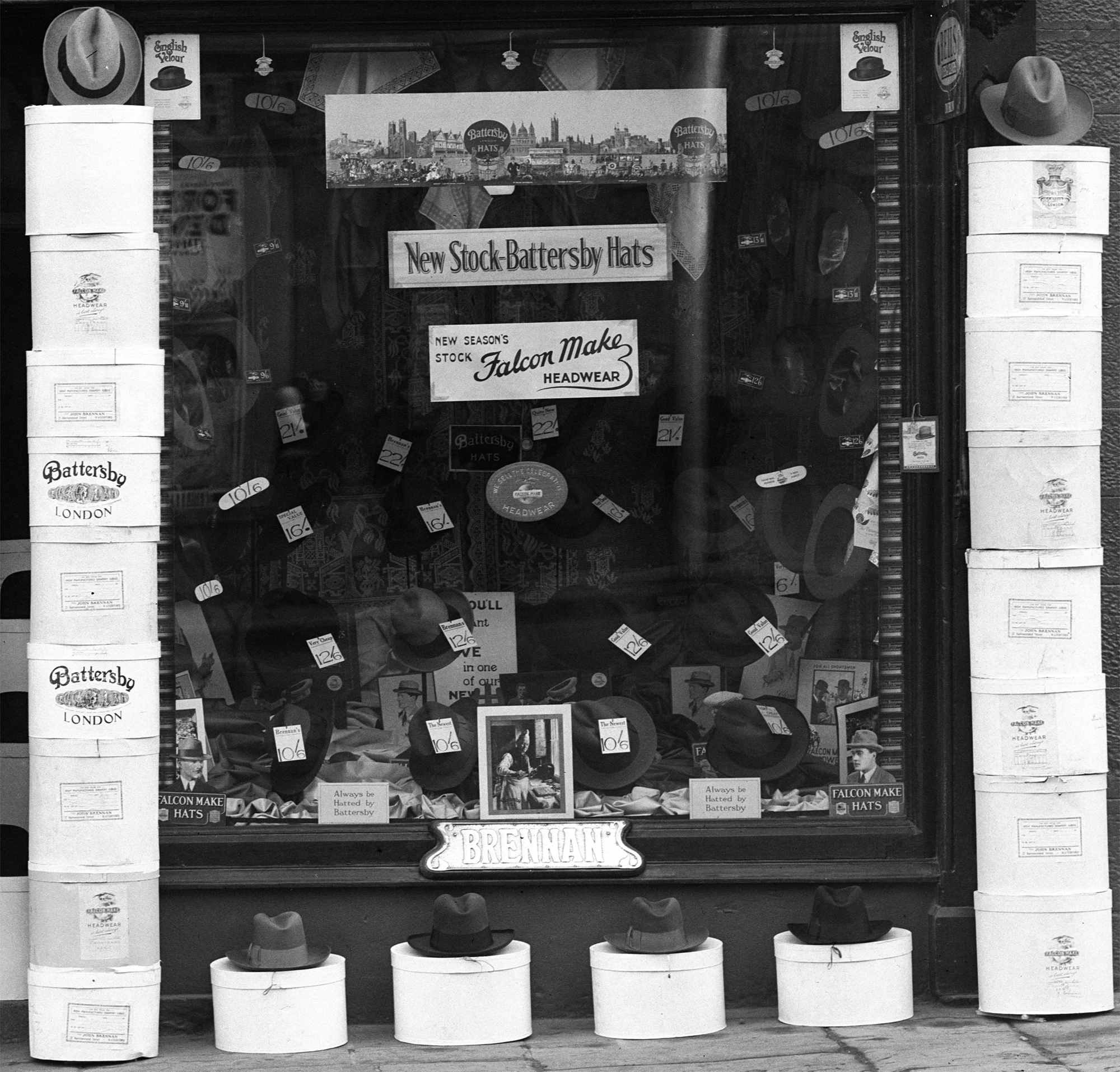 The right hand window display at Brennan's Drapery, 27 Barronstrand Street, Waterford. Date: Thursday, 27 September 1928 NLI Ref.: P_WP_3565